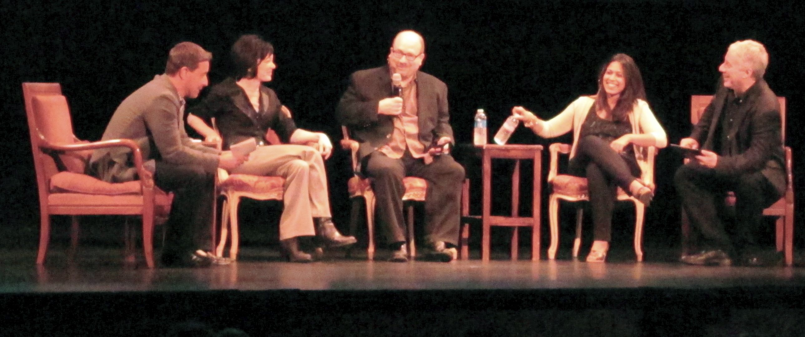 How Tech has changed Philanthropy, a KQED event at the Nourse Theater in San Francisco, January 28, 2014. Left to right: Scott Shafer, KQED Sue Gardner, Wikimedia Foundation Craig Newmark, Craigslist, Craigconnects Nadia Mahmud, Jolkona David Brancaccio, Marketplace Morning ReportPhoto is also on Flickr.